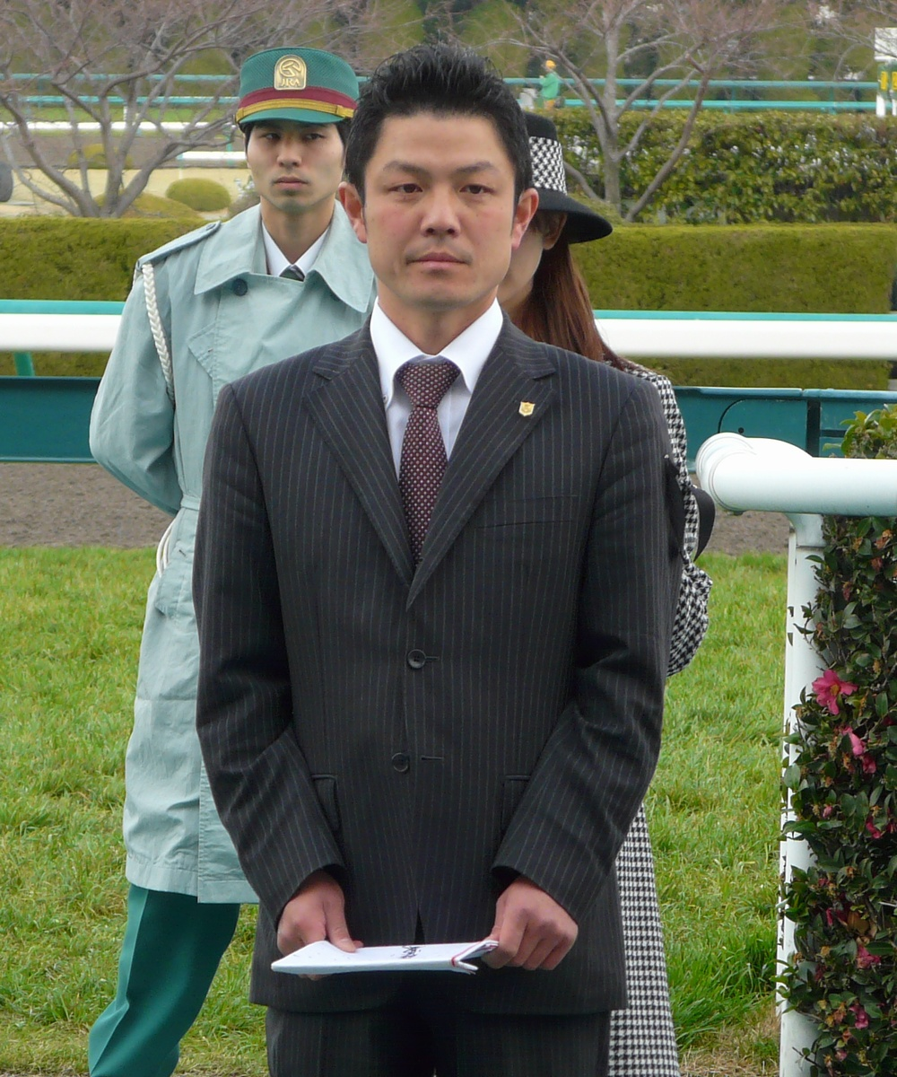 Masahiro-Otake20110321